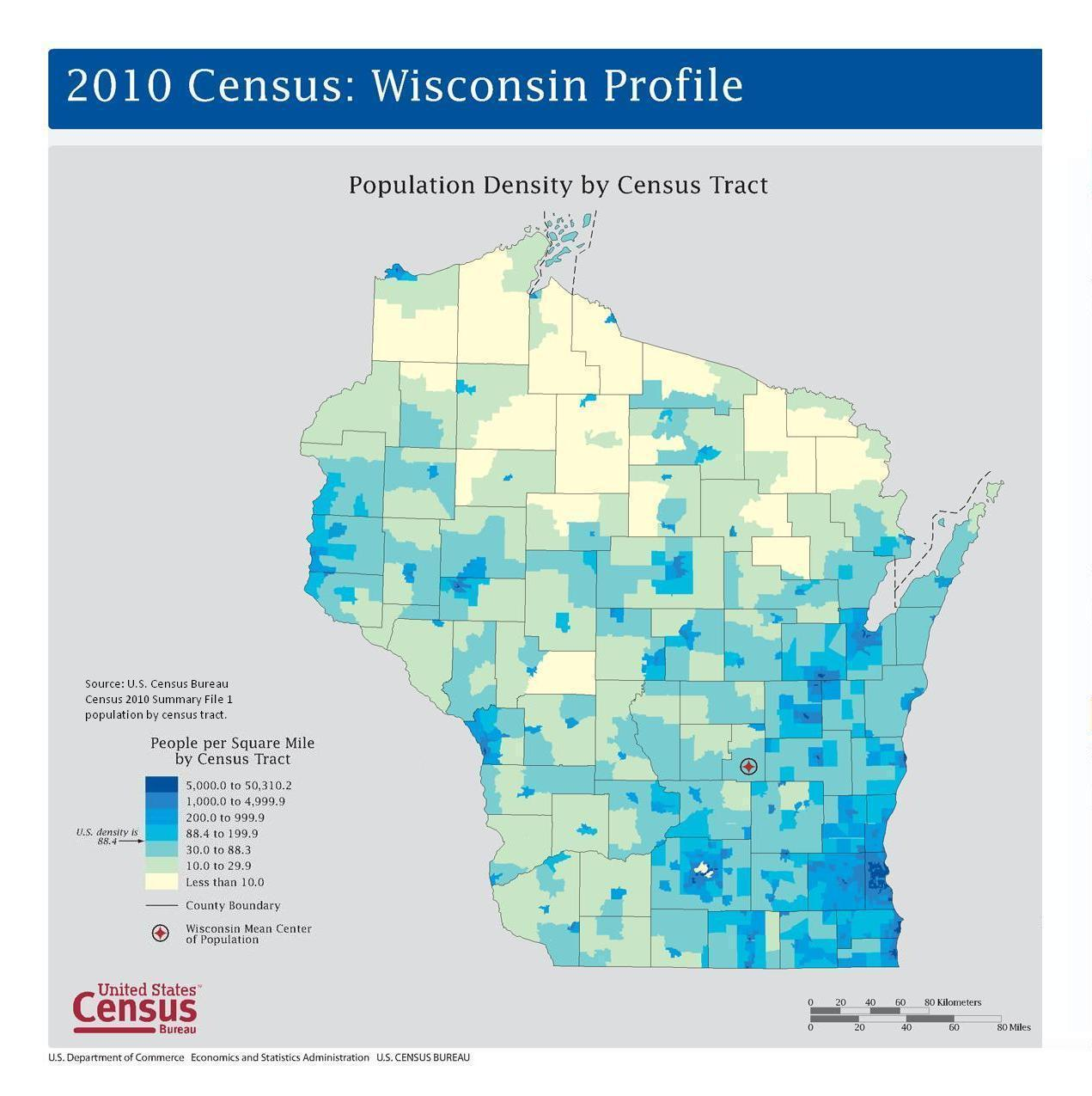 Wisconsin population density map based on Census 2010 data. See the data lineage for a process description.